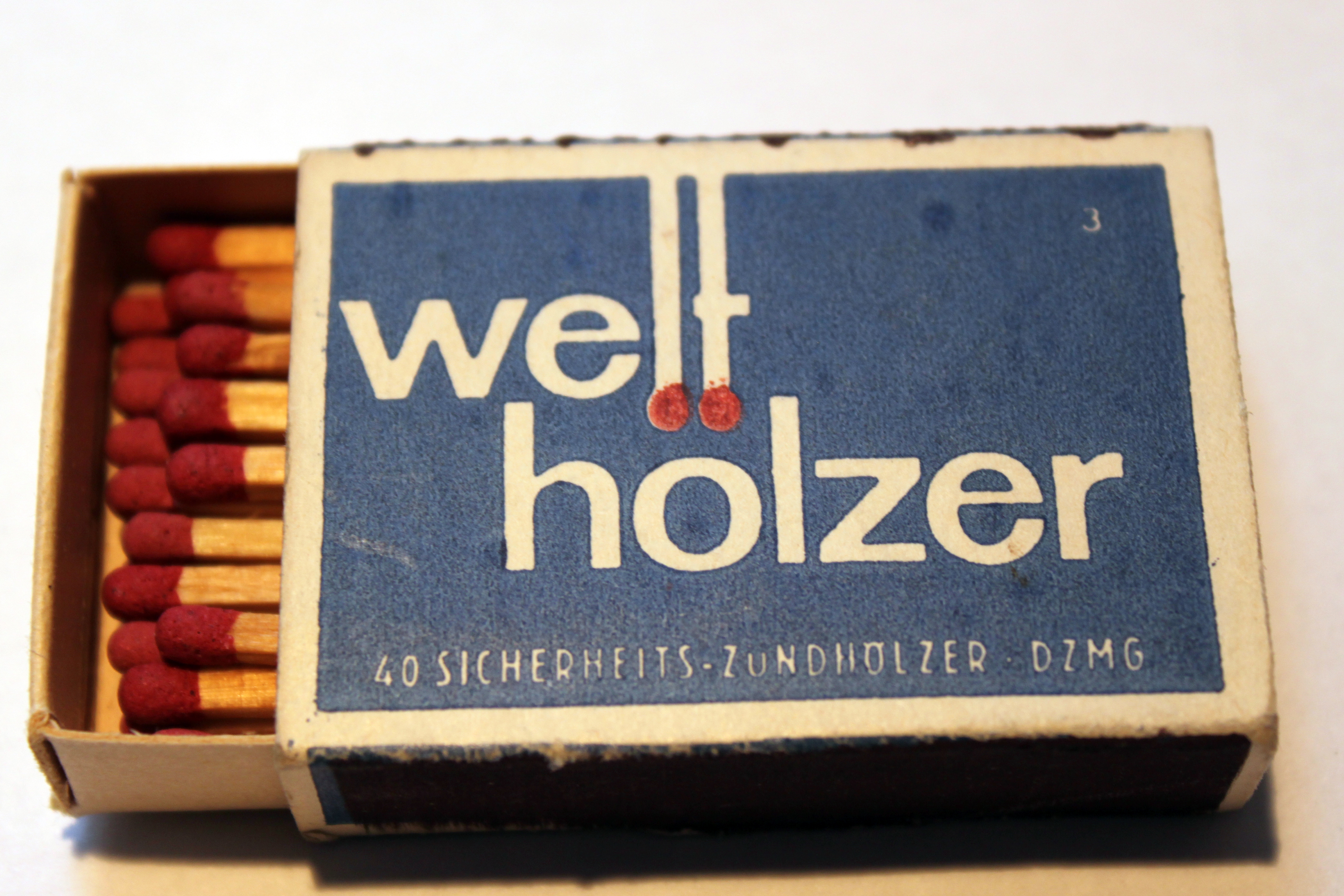 Matchbox "Welthözer"